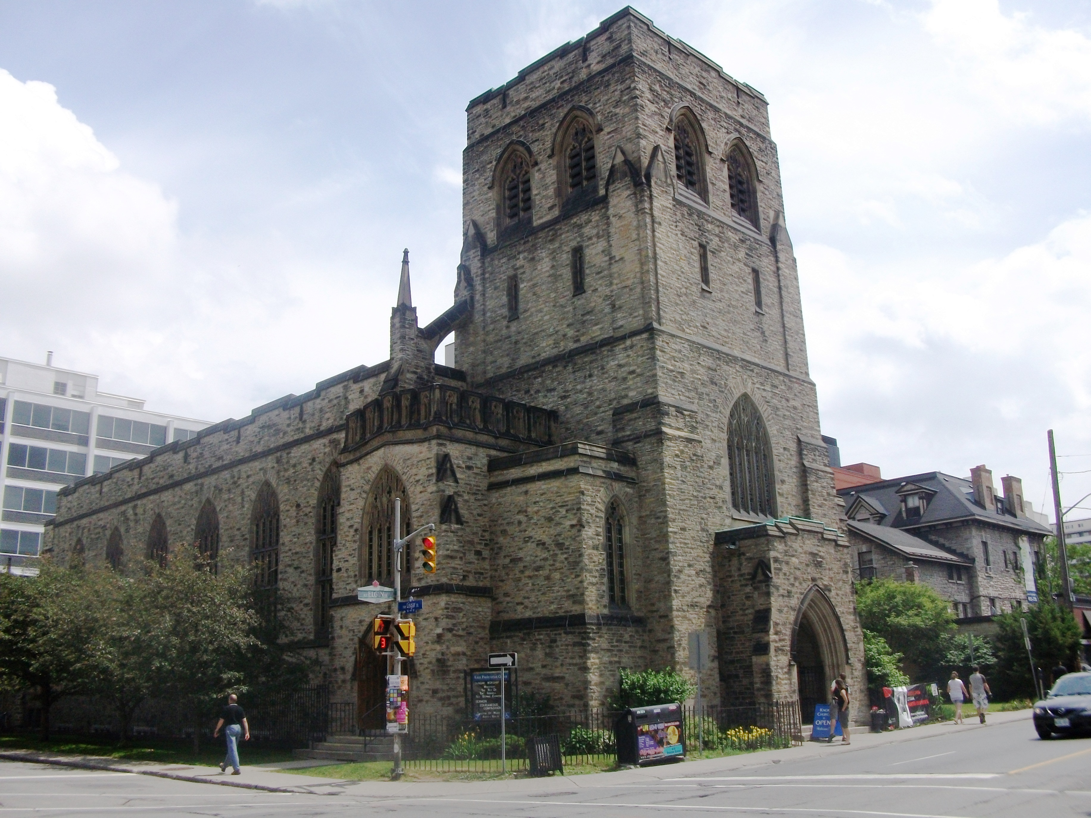 Picture of Knox Presbyterian Church, 120 Lisgar Street / Elgin Street, Ottawa